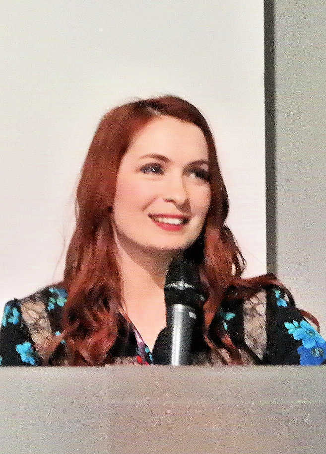 Felicia Day, Multigenre Fan Convention Pyrkon, Poznań, Poland